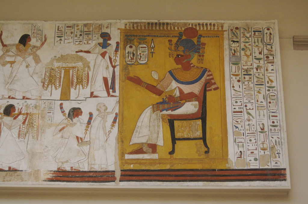 A hoard of photos from a day trip to London. We started in Greenwich at the Royal Observatory, and then spent most of the evening at the British Museum. These are uncleaned and unedited; all I've done is shrunk to make it faster to upload them. I'll post some of my faves to my "real" Flickr account as time and mood permits. A hoard of photos from a day trip to London. We started in Greenwich at the Royal Observatory, and then spent most of the evening at the British Museum. These are uncleaned and unedited; all I've done is shrunk to make it faster to upload them. I'll post some of my faves to my "real" Flickr account as time and mood permits.